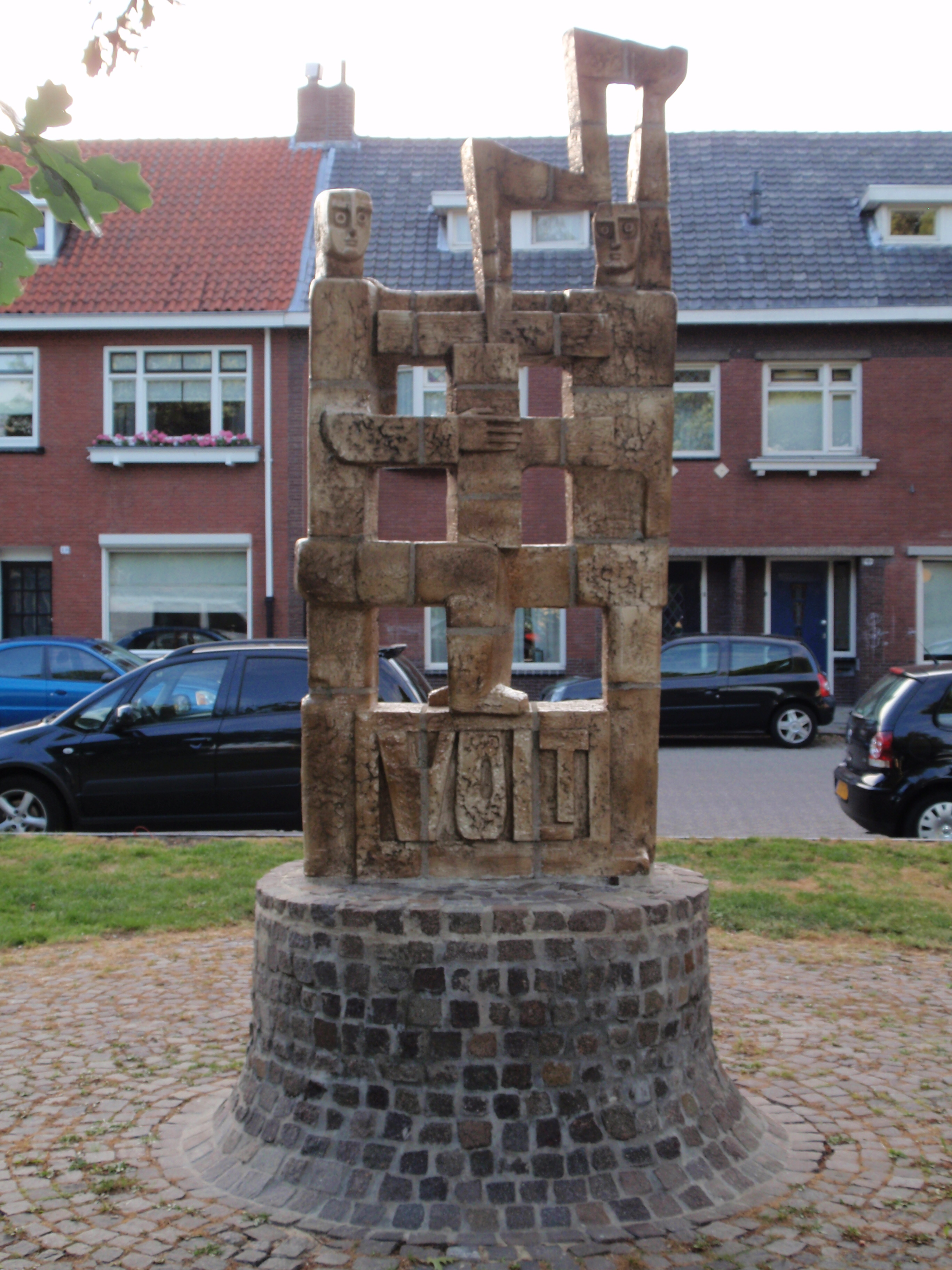 Volt Vonk, monument in Tilburg